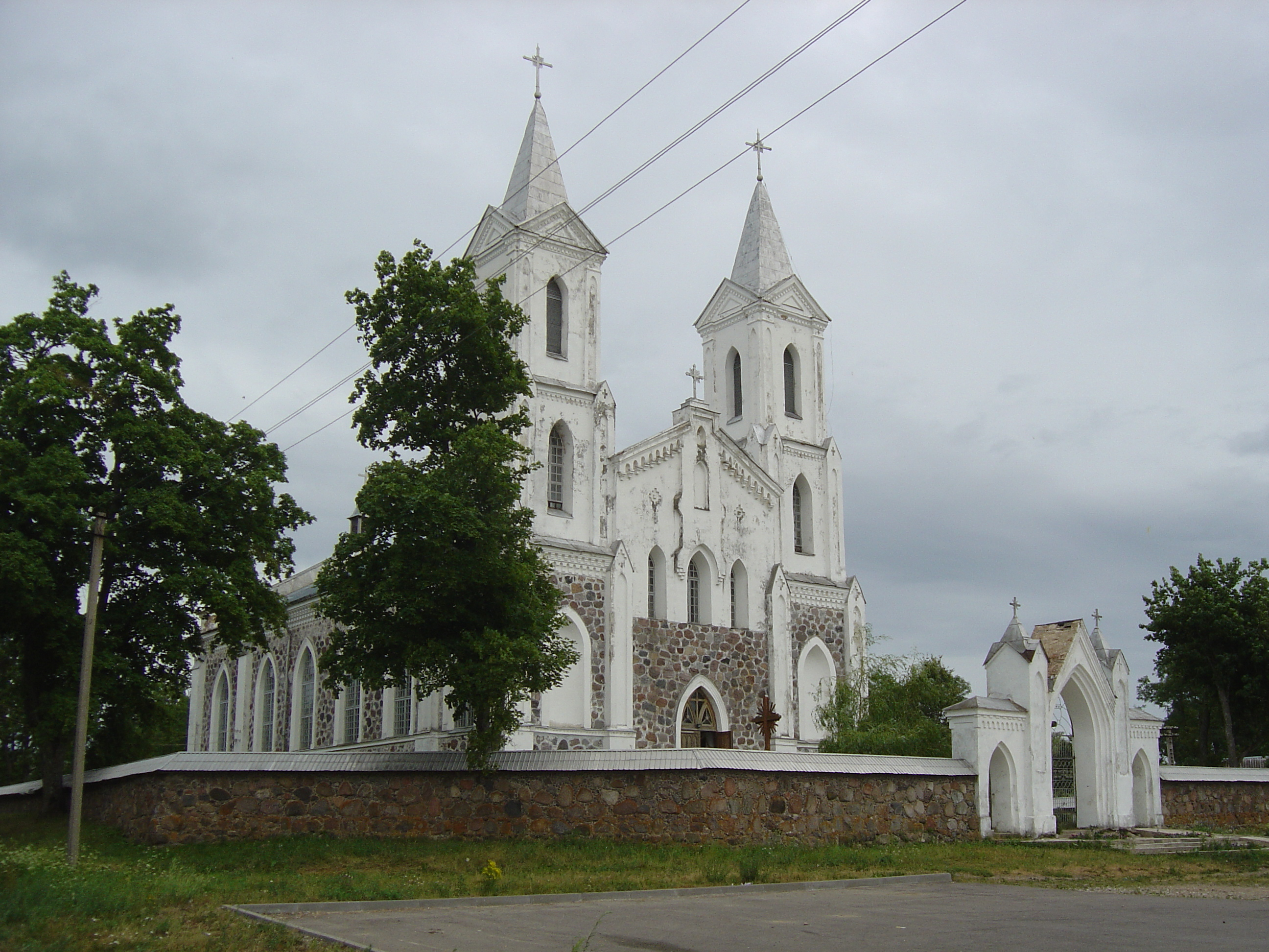 Uzuguostis churchLietuvių: Užuguosčio Šv. apaštalų Petro ir Pauliaus bažnyčia